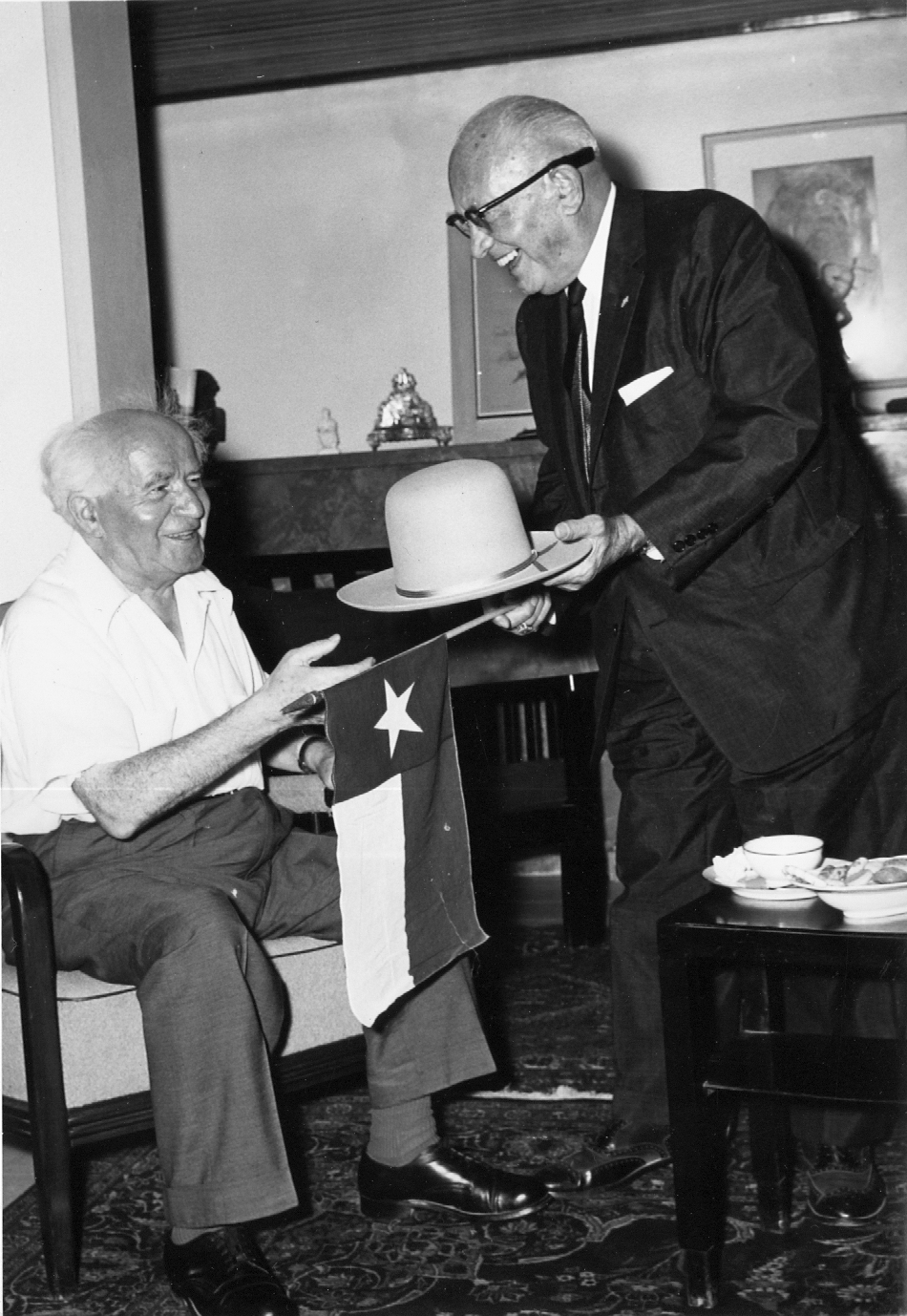 Jim Novy presenting Israeli Prime Minister David Ben Gurion with a hat and flag from Texas, October 1958